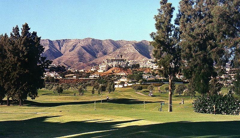 Mijas Golf from Camino Coin road, autumn 2005. Photo: Jonny Erixon (Jonnyx).